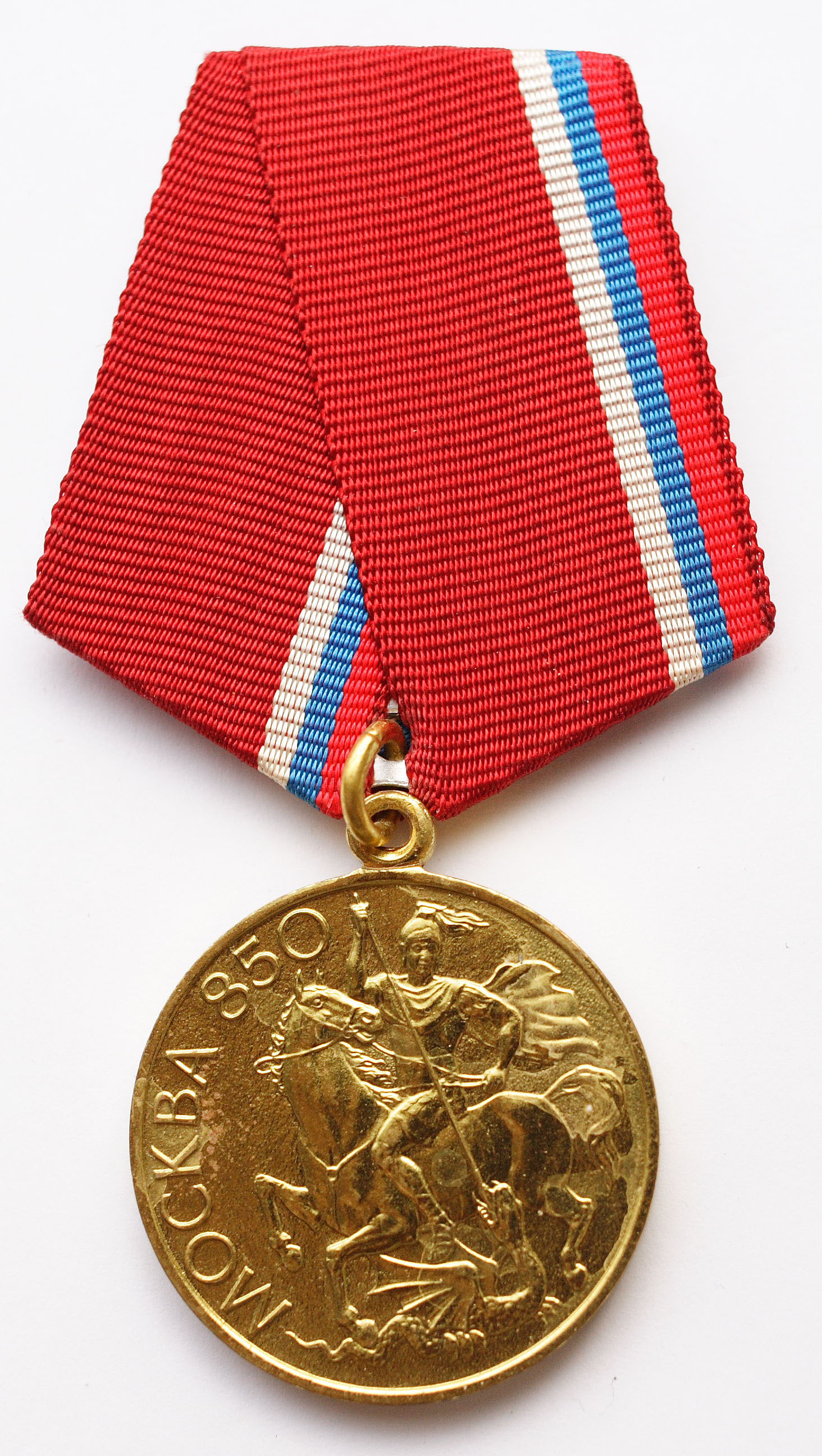 Medal 850th Anniversary of Moscow, avers